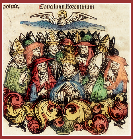 Council of Florence 1431-1445